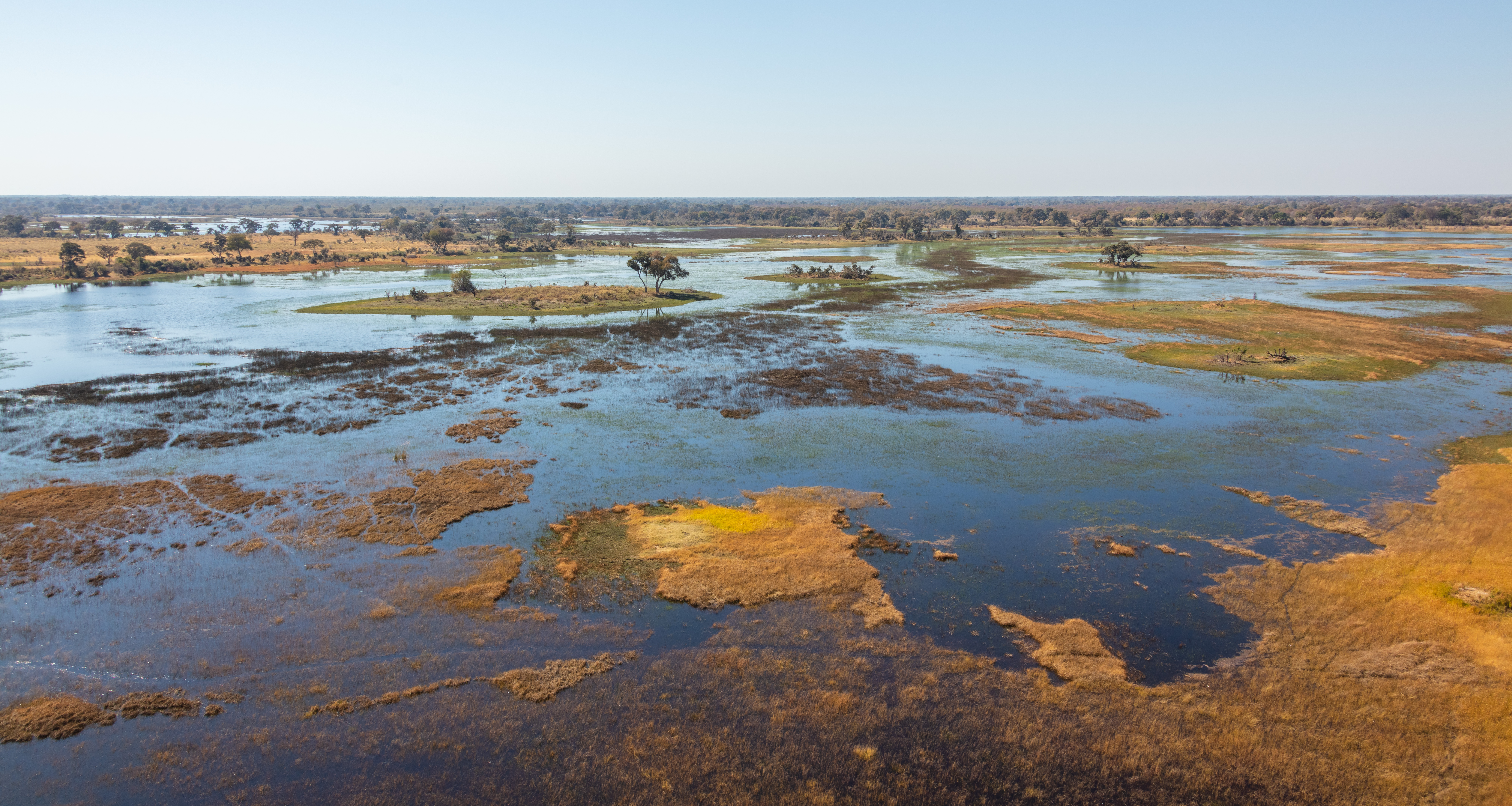 Aerial view of Okavango Delta, Botswana